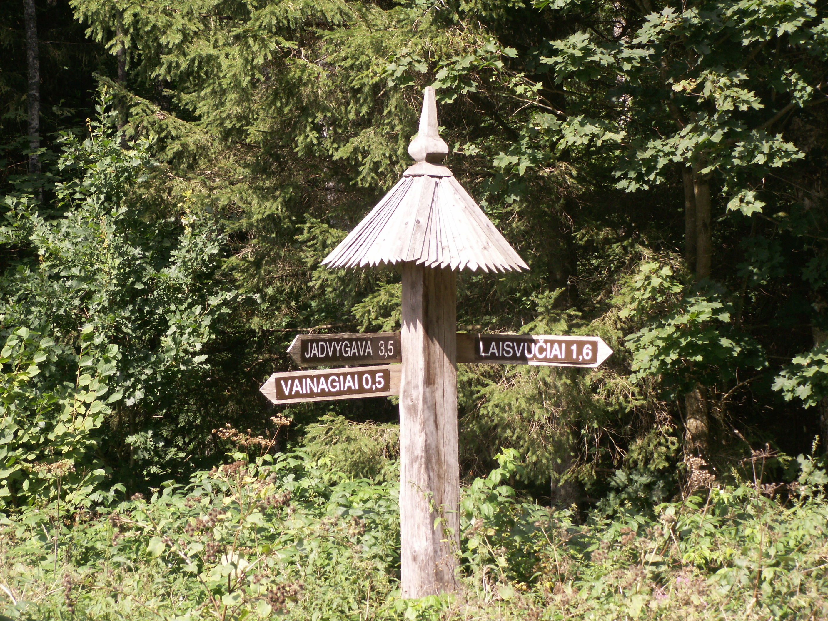 Vainagiai, Kurtuvėnai regional park, Lithuania